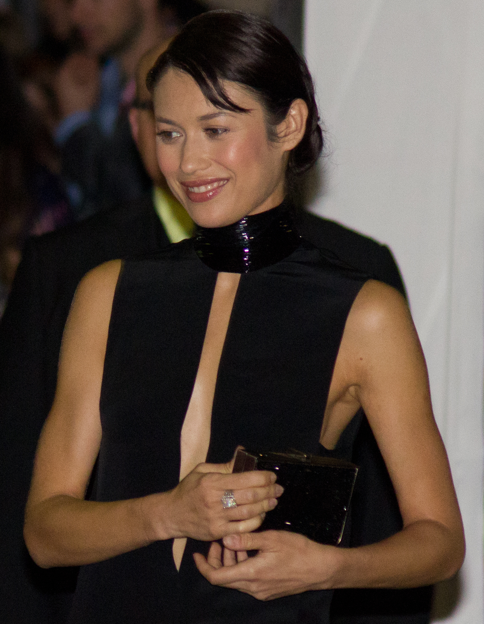 Olga Kurylenko at the Toronto International Film Festival 2012.